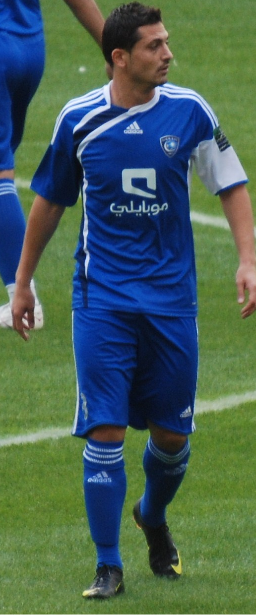 Mirel Matei Rădoi (nicknames: „Zorro”, „The Captain”), (born March 22, 1981 in Drobeta-Turnu Severin), is a Romanian football midfielder, who can also play as center back and rightback, who currently plays for Al-Hilal in Saudi Arabia. He is considered a symbolic player for Steaua Bucureşti, along with Marius Lăcătuş.